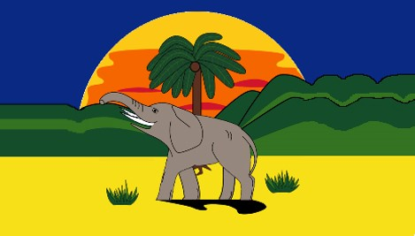 The Flag of Gold Coast